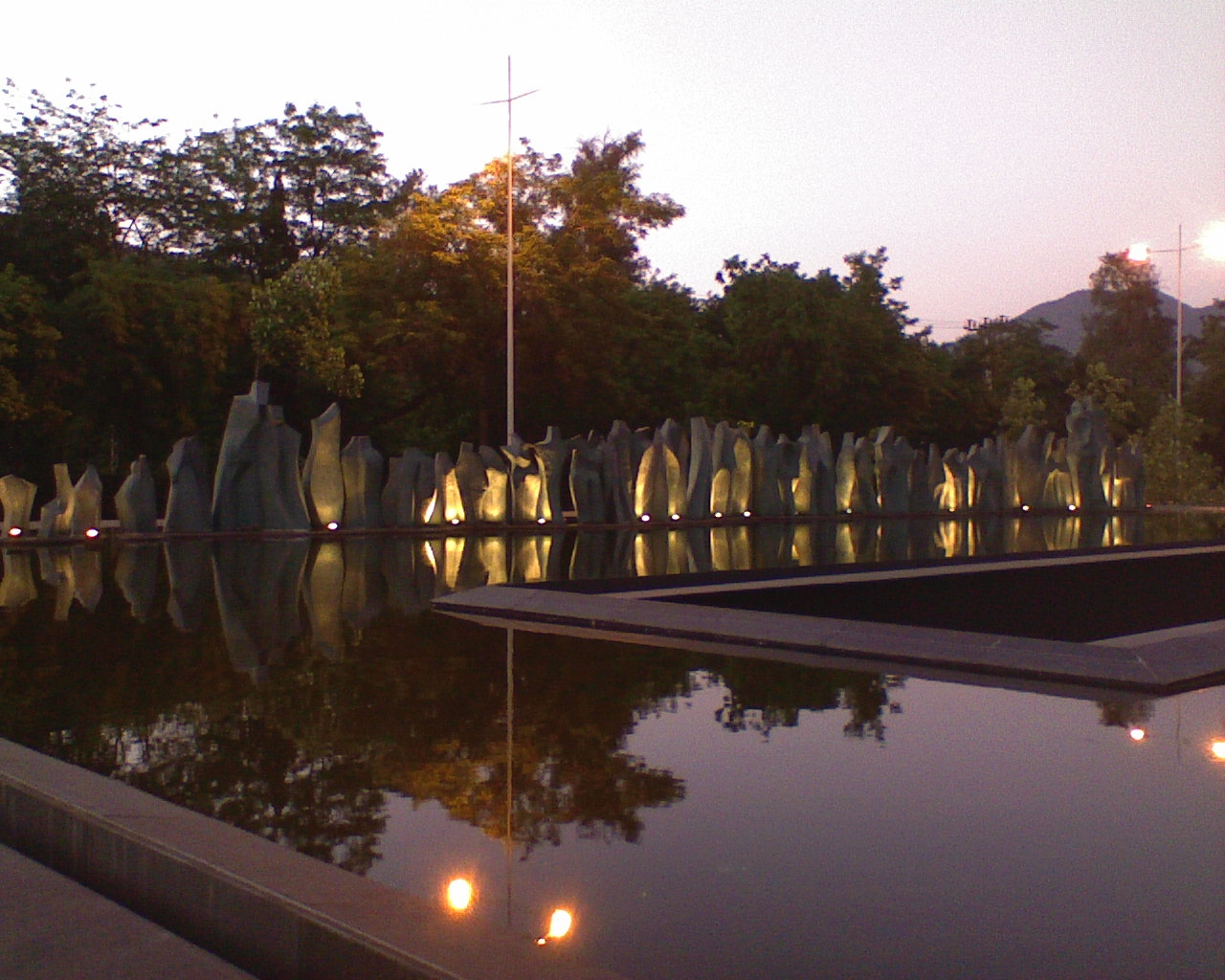 Memorial to chilean senator Jaime Guzmán Errázuriz (sculptor: María Angélica Echavarri) in the commune of Las Condes, Santiago, Chile.